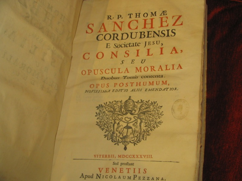 First page of Tomás Sanchez's Consilia seu Opuscula Moralia, 1738